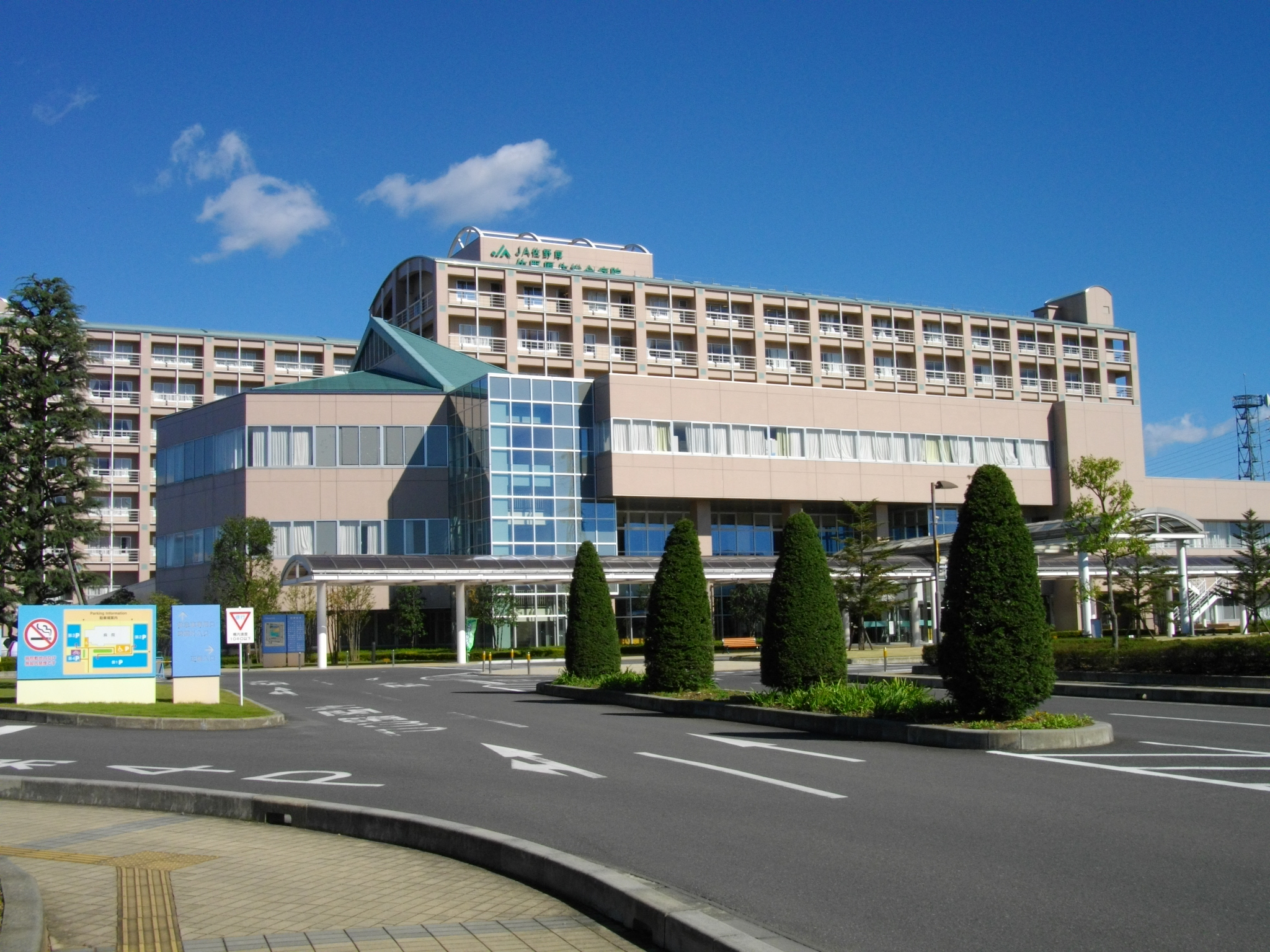 Sanokousei General Hospital